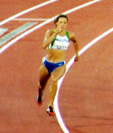 Alenka Bikar at the 2000 Summer Olympics